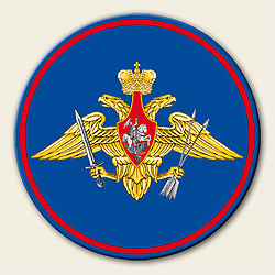 The Russian Federation Strategic Rocket Forces sleeve badge